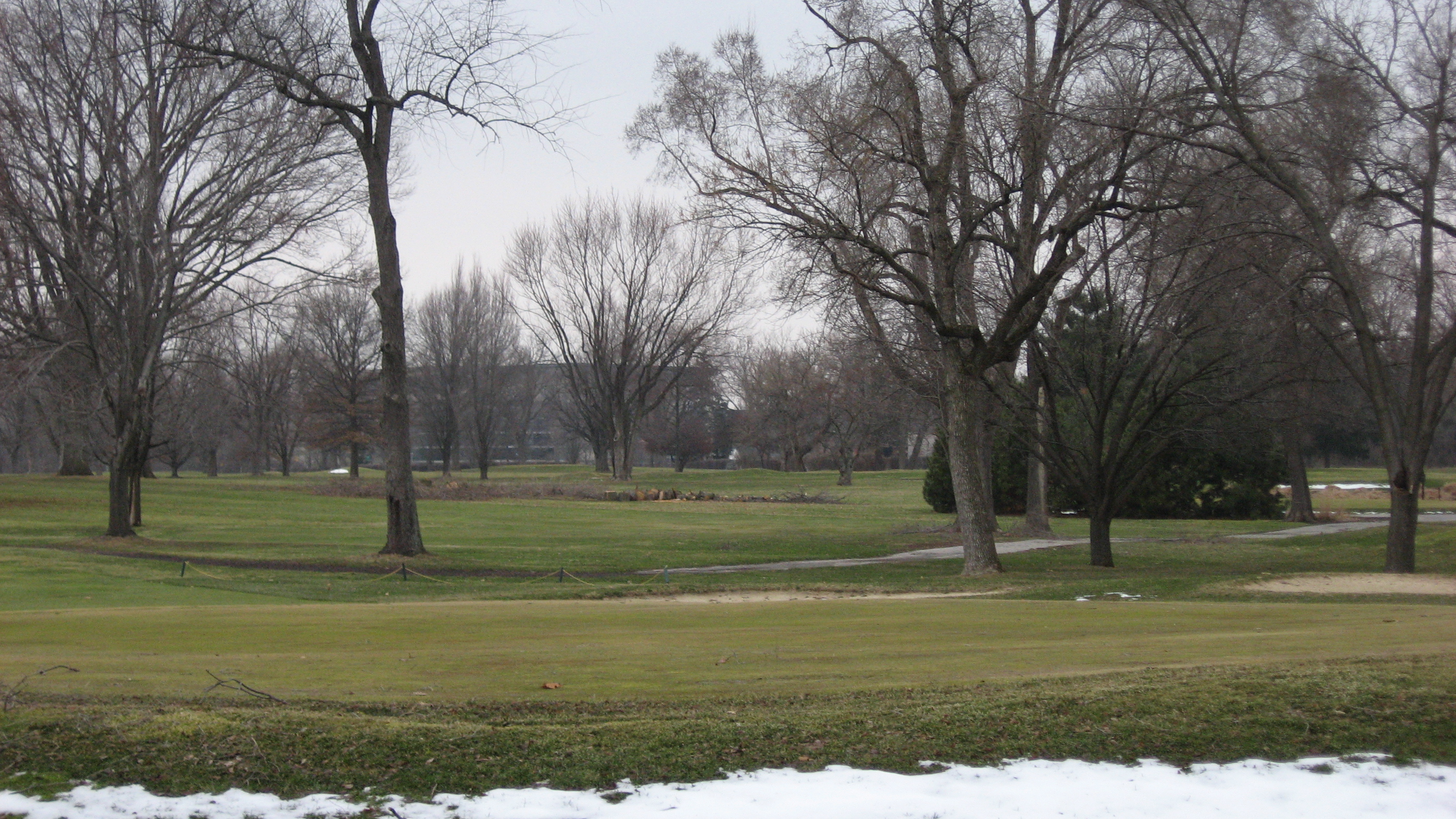 A green at the Woodstock Country Club, located off Golden Hill Drive in Indianapolis, Indiana, United States. The golf course is listed on the National Register of Historic Places.